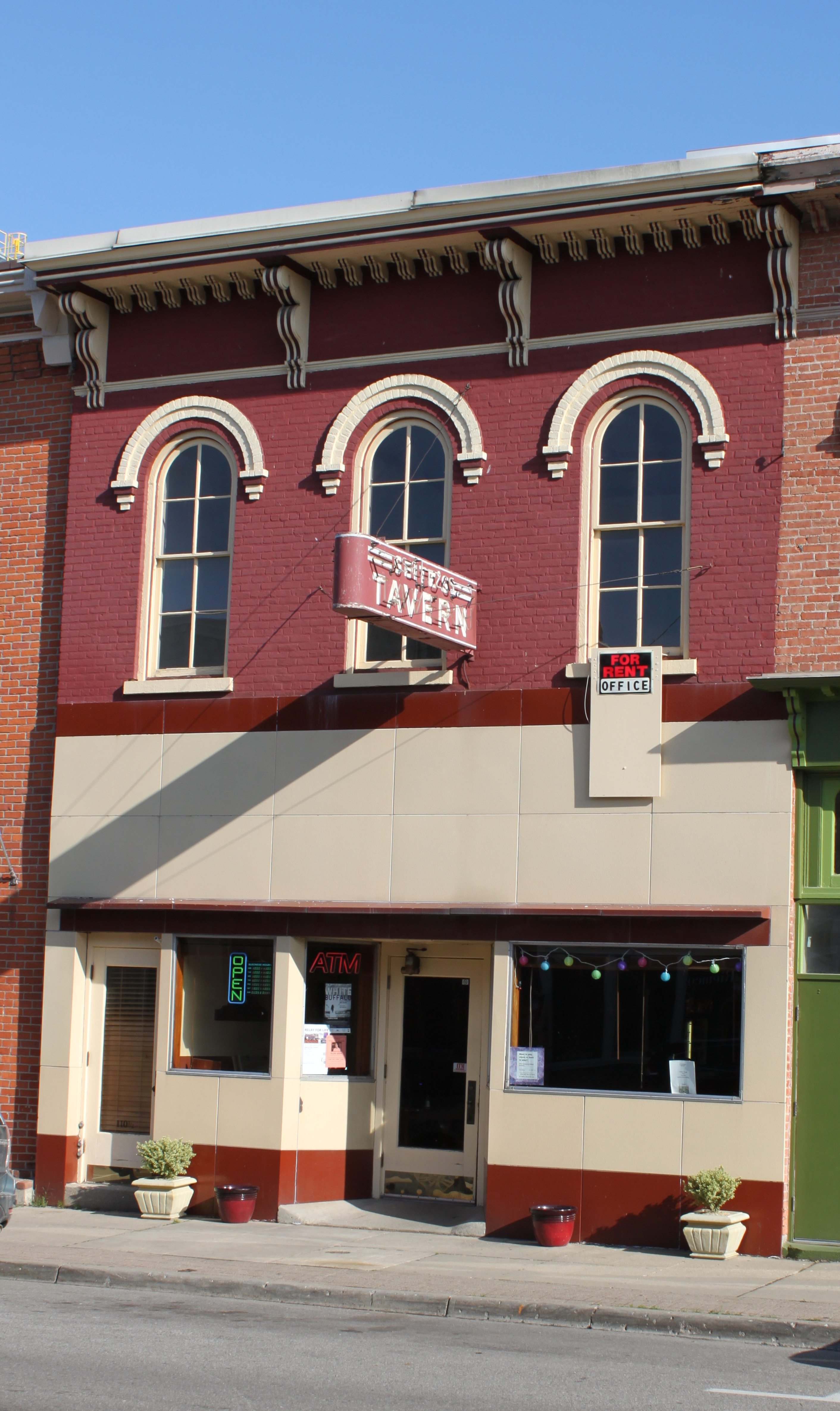 Seitz's Tavern, 110 West Middle Street, Chelsea, Michigan.